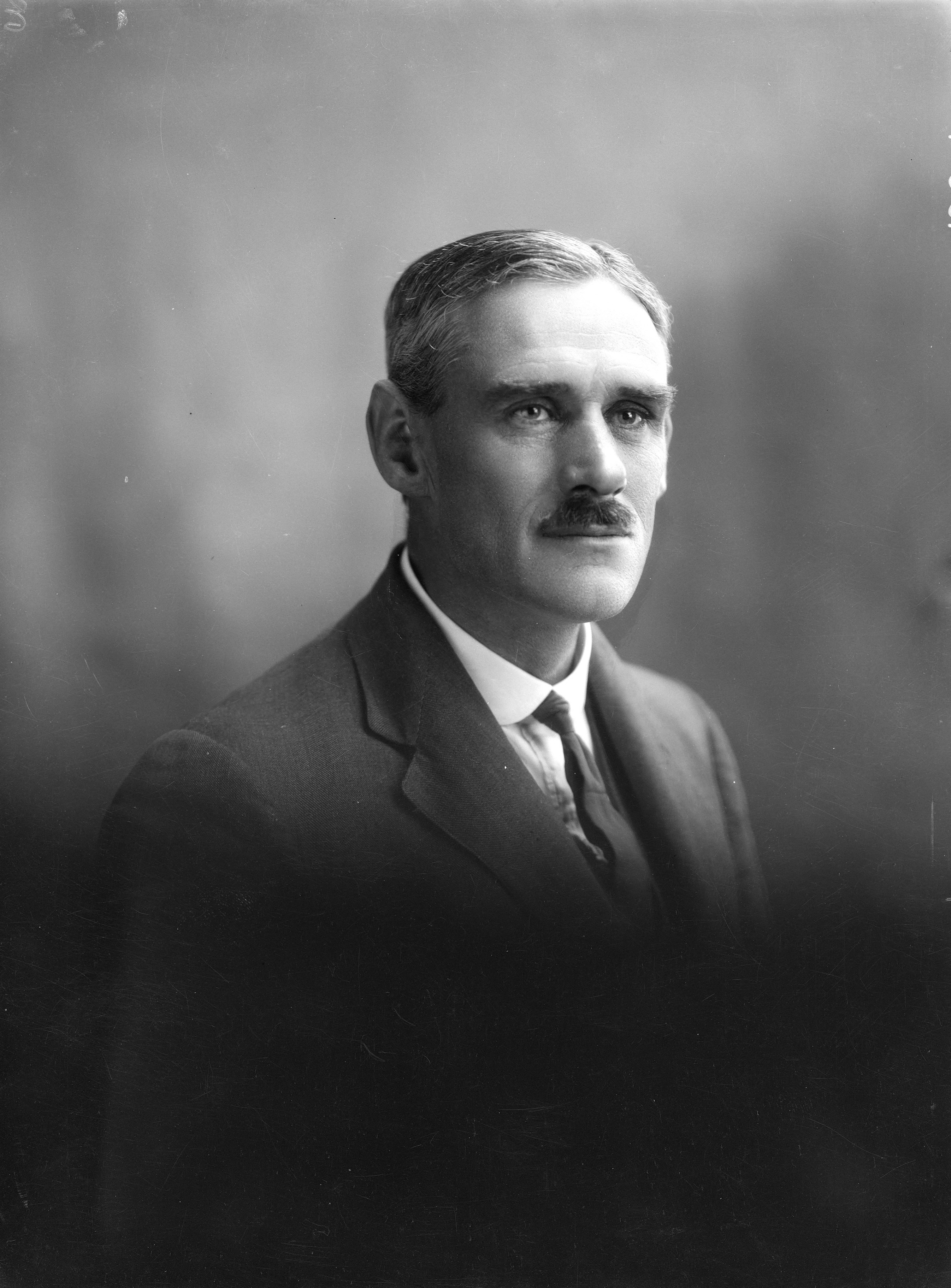 Harold Montague Rushworth, photographed by Herman John Schmidtl, circa 1920s.